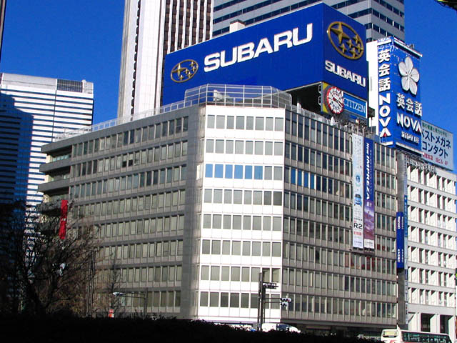 Subaru HQ